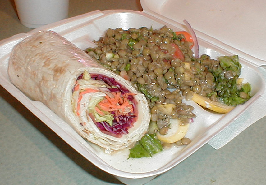 I tried so hard to find a vegan meal at Hartsfield, but the veggie wrap had unannounced cheese (!) and the lentils were, frankly, abysmal.Airport Food